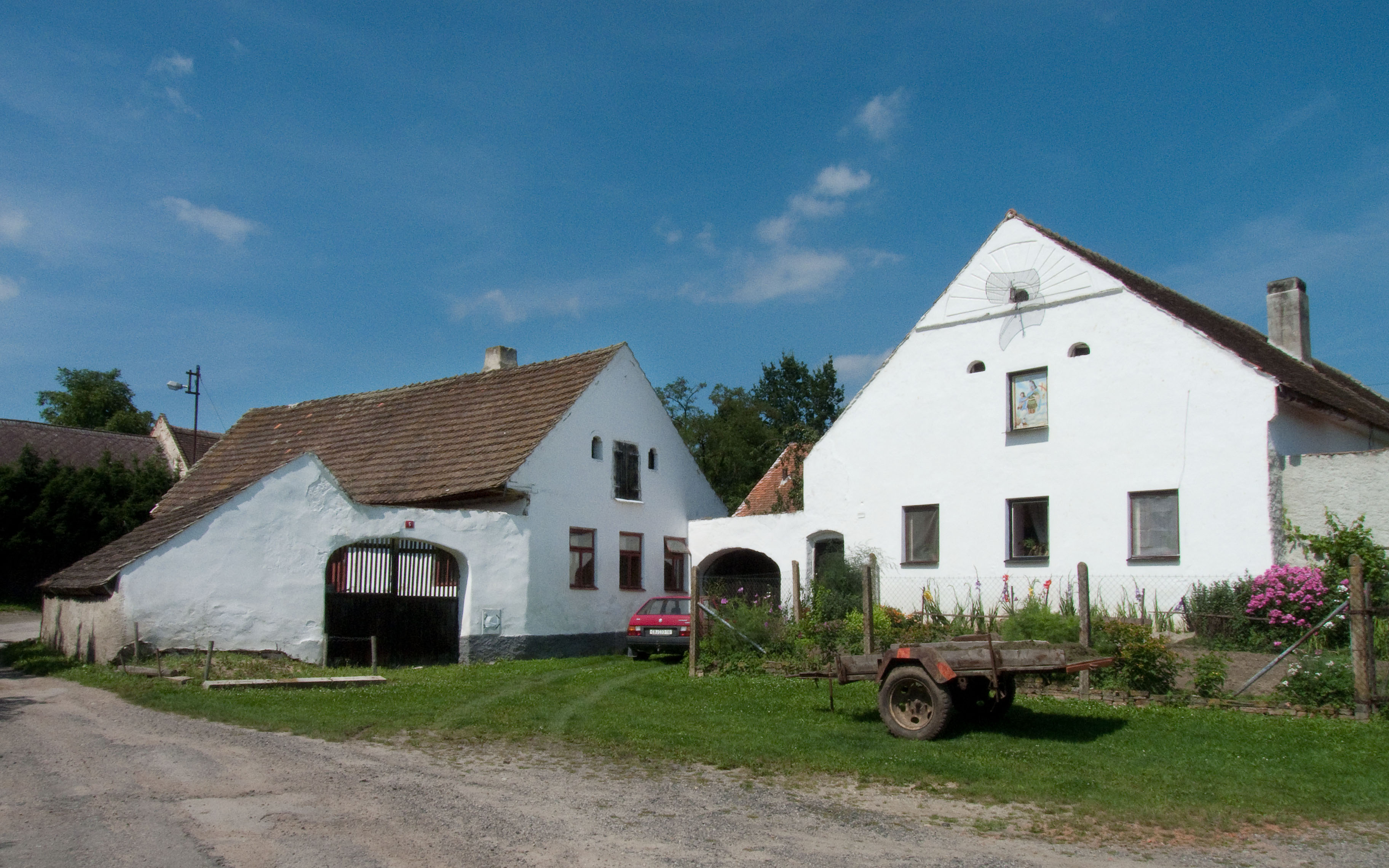 Houses No 5 (left) and 1in Holubovská Bašta, České Budějovice district, Czech Republic